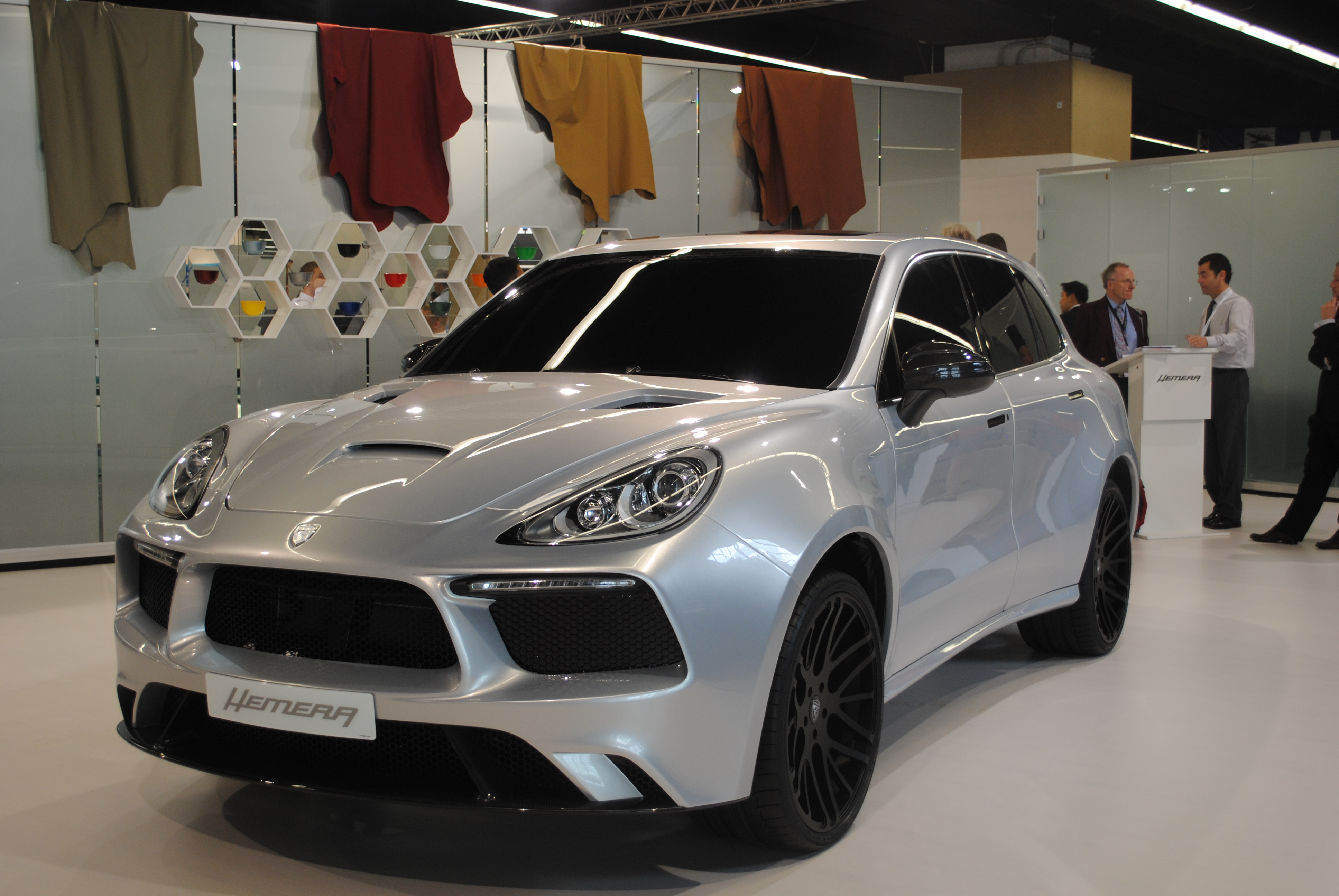 More photos and info